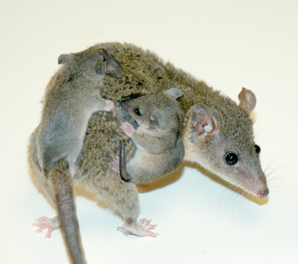 Genome sequence data from the opossum Monodelphis domestica fills a gap in our understanding of the evolution of the mammalian immune system.